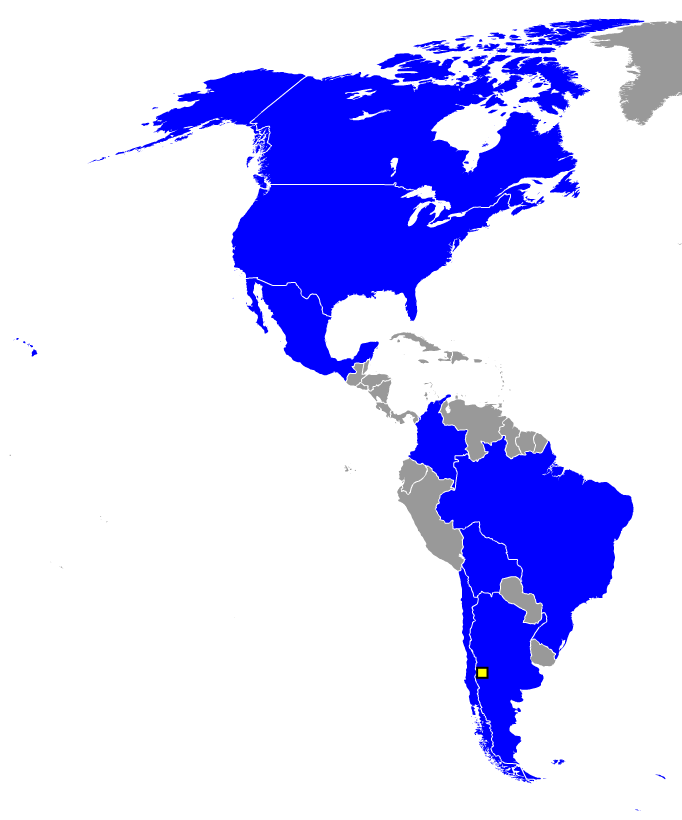 Countries which participated in the 1990 Winter Pan American Games